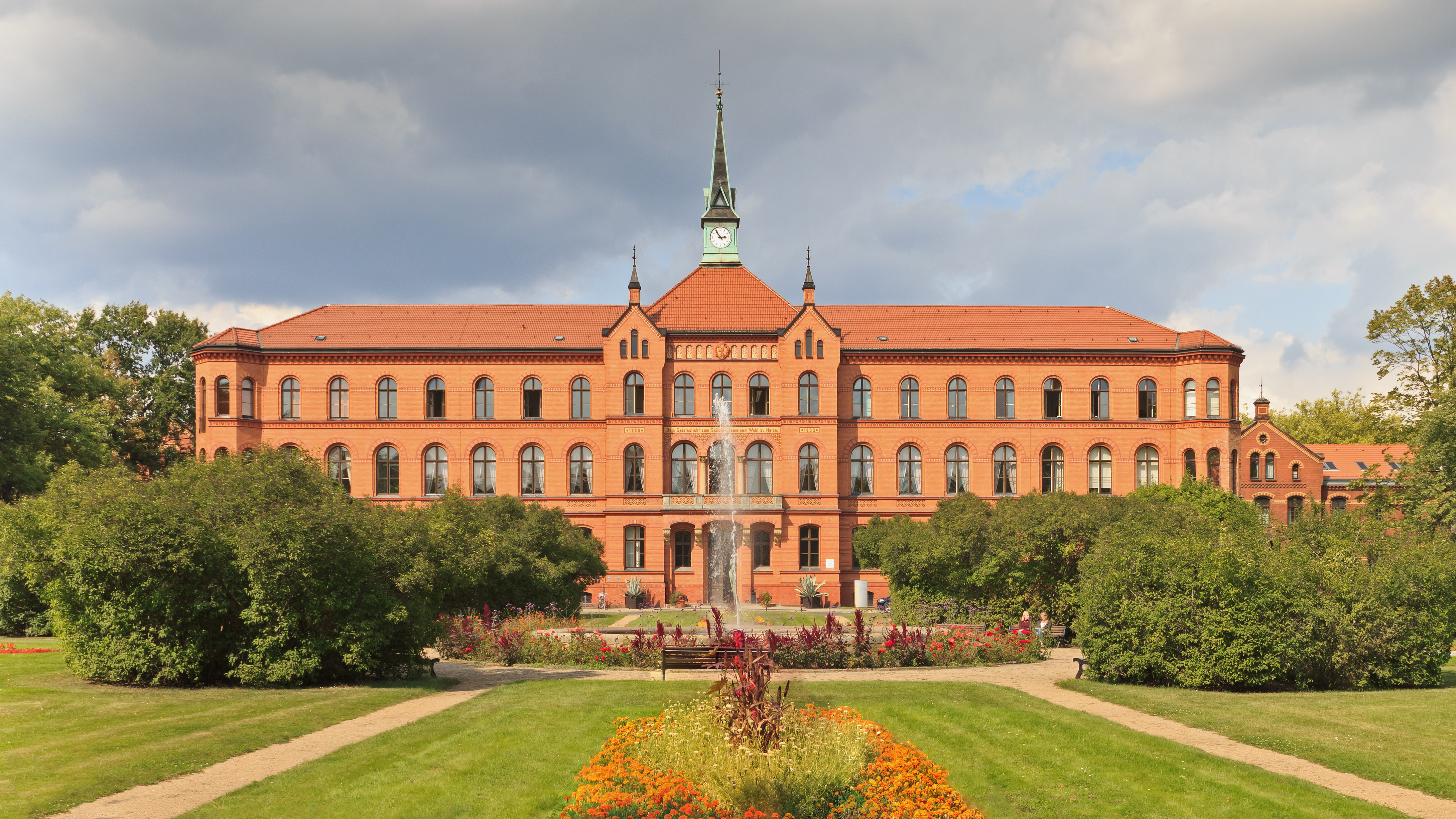 Queen Elizabeth Herzberge Hospital in Berlin, Germany